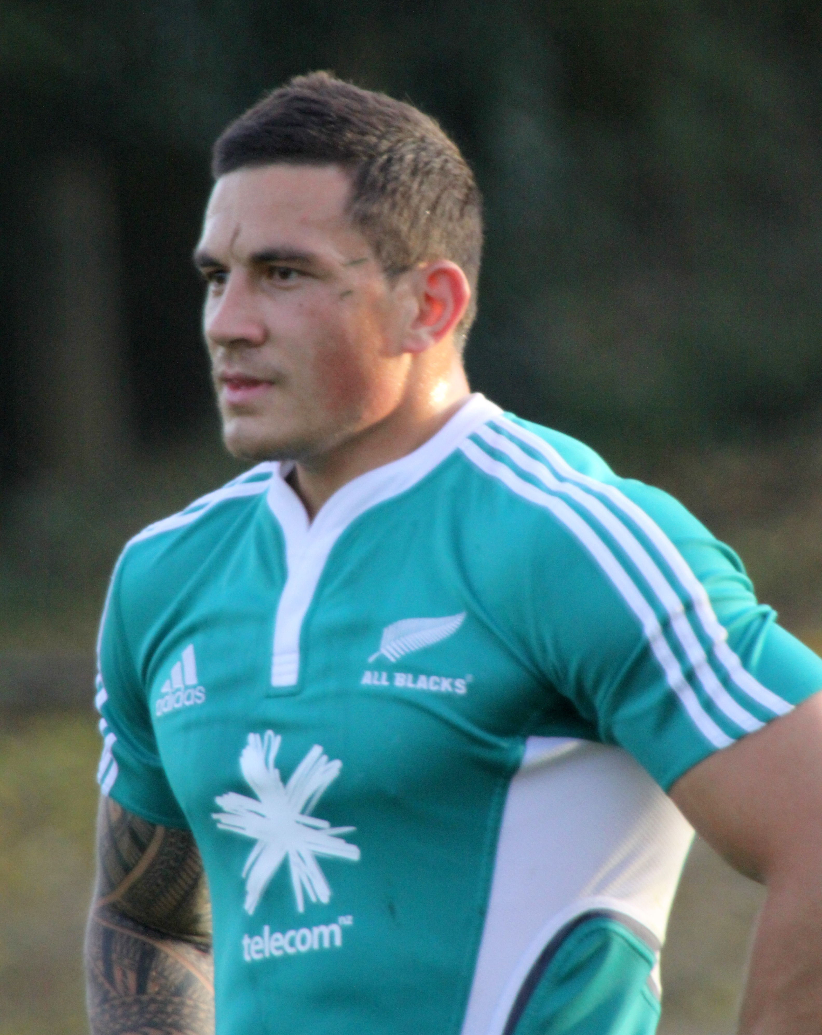 A New Zealand rugby union player and a heavyweight boxer, Sonny Bill Williams.